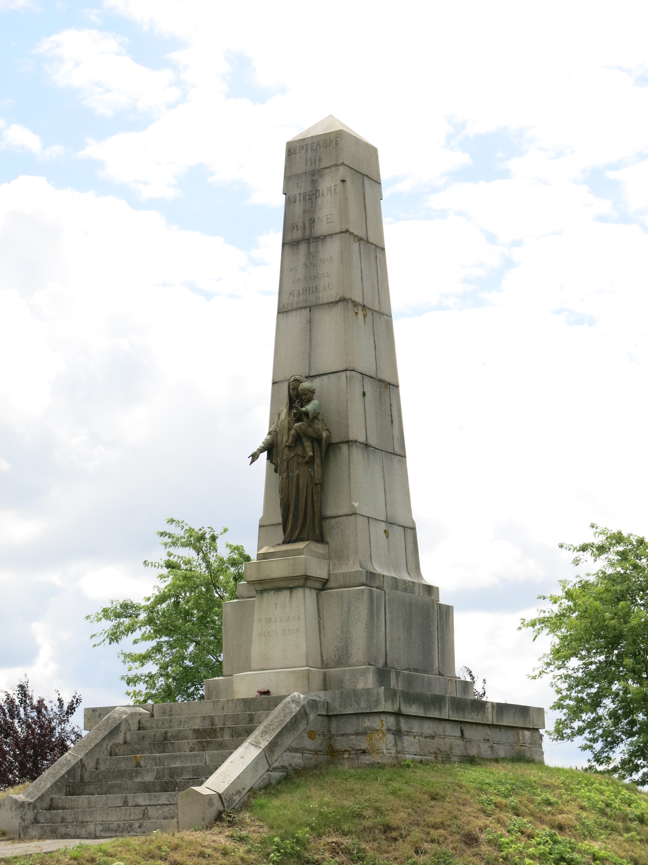 Monument of Notre-Dame-de-la-Marne in Barcy (Seine-et-Marne, France). The place was occupied on september, 4 1914 by the staff of the avant garde of German general von Kluck. The bishop of Meaux, Mgr Barbeau, promised on september 8 to build a monument if his town was preserved. The monument inaugurated on june 9, 1924 is an obelisk on a slight height. With a statue of Madonna and Child by the sculptor Louis Maubert. There is a plaque on the monument : Tu n'iras pas plus loin (=You will not go further).